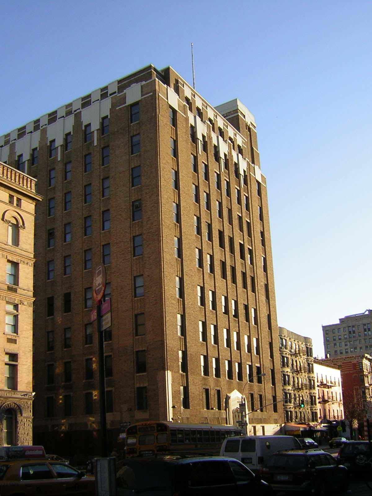 Looking south at East 13th Street exchange building of New York Telephone on a sunny winter afternoon